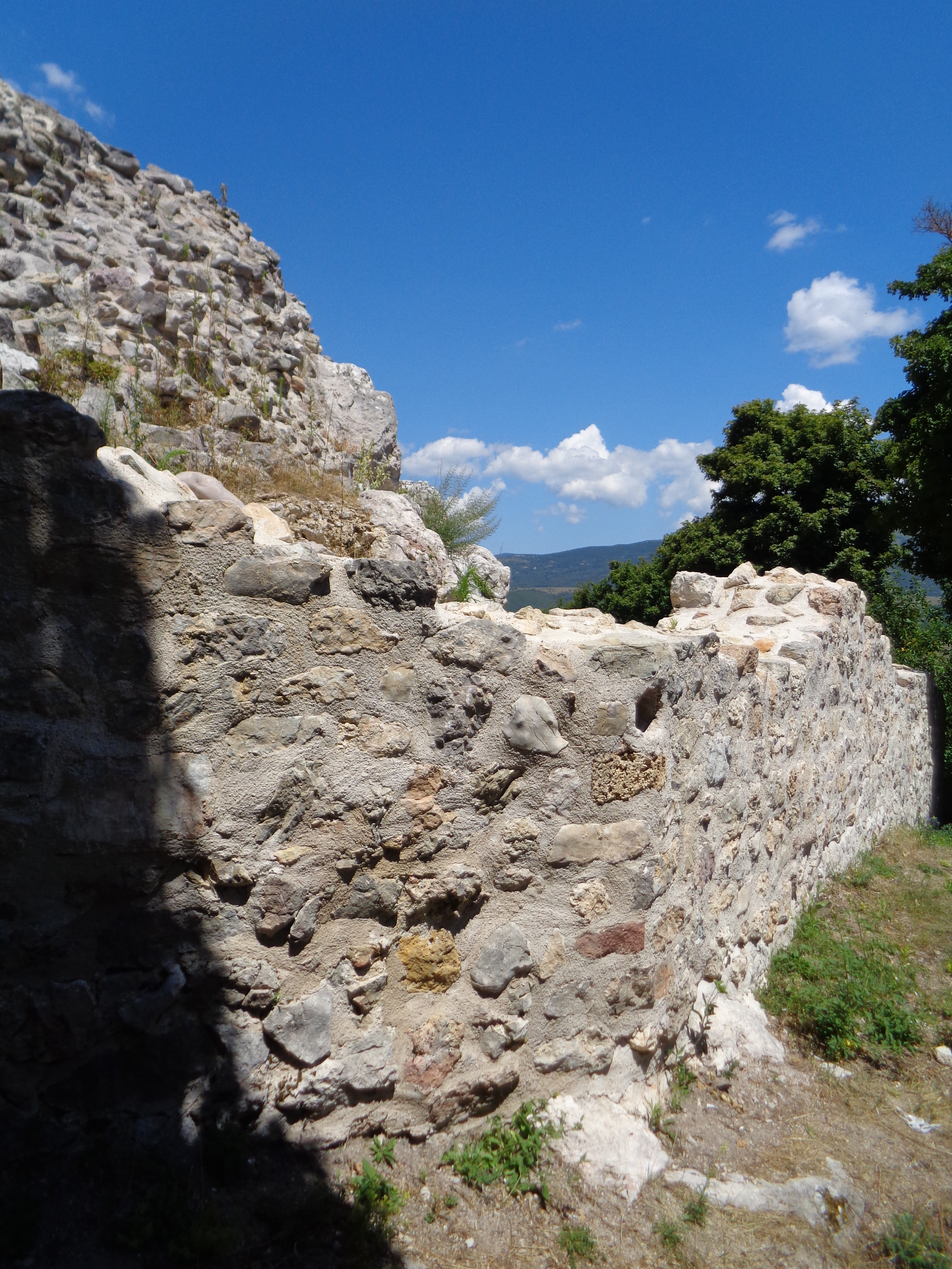 Udbina Castle in the Town of Udbina, Lika-Senj County, central Croatia (detail)